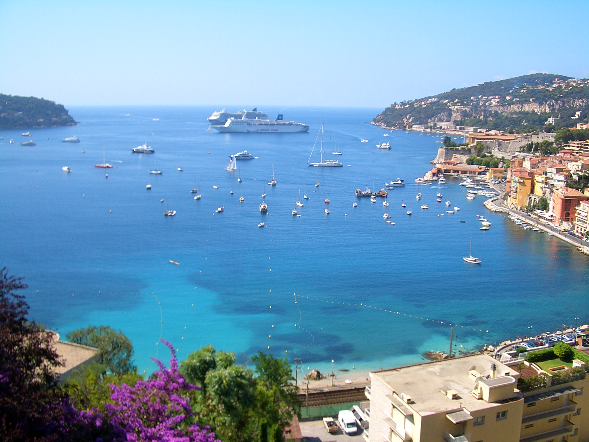 The roadstead of Villefranche-sur-Mer, with cruise ships (a Pullmantur Cruises boat, and Norwegian Jewel)